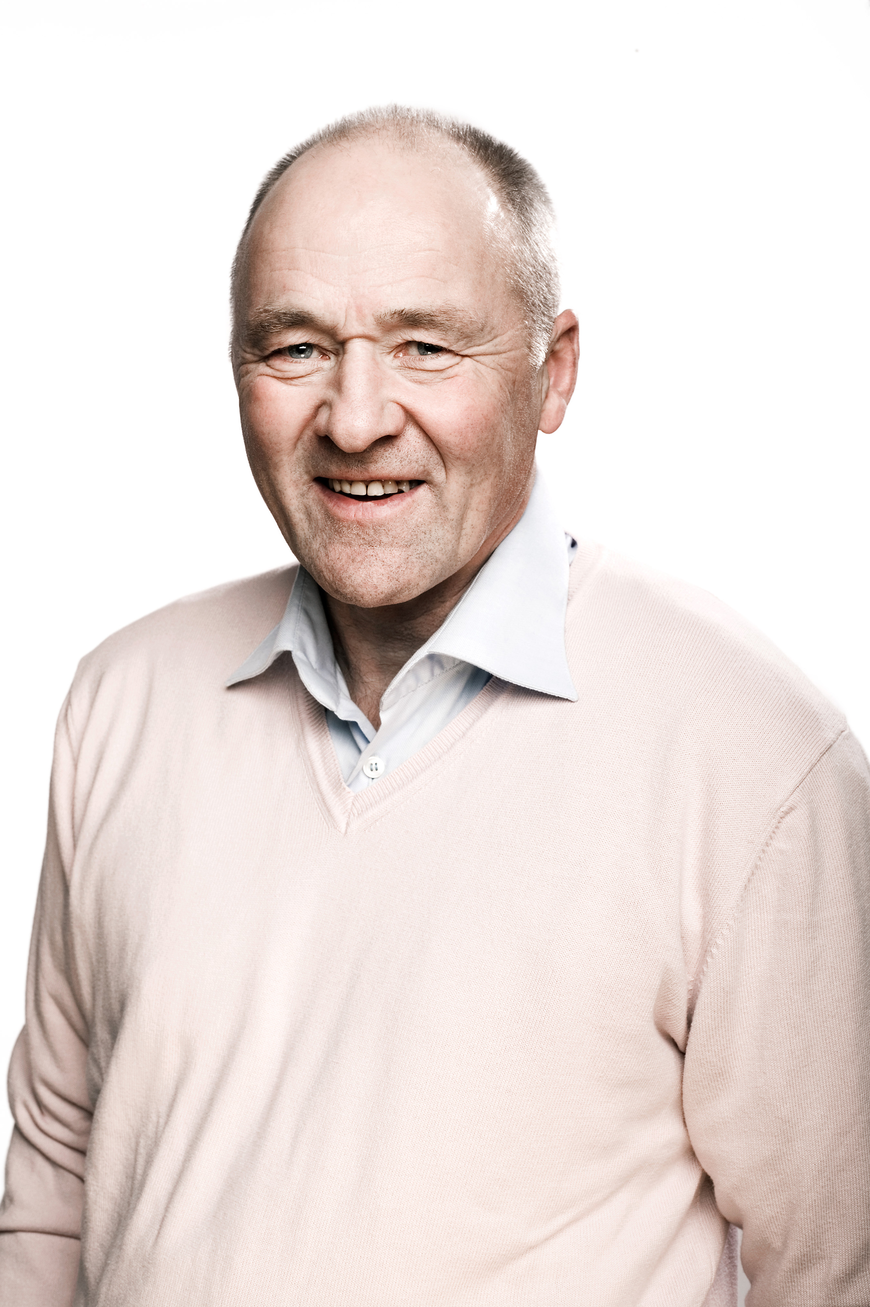 Atli Gíslason, MP of the Icleandic Left-Green movement